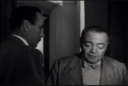 Humphrey Bogart and Peter Lorre in Beat the Devil